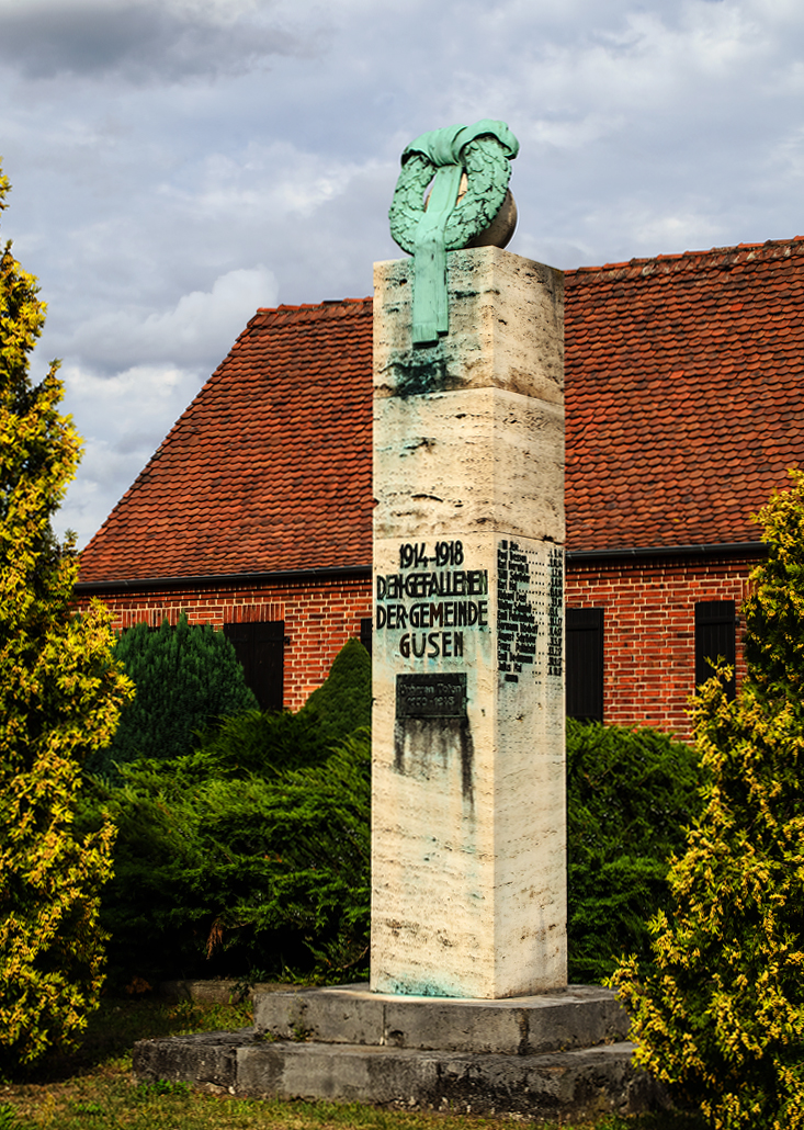 Stone column with honorary wreath for the fallen soldiers